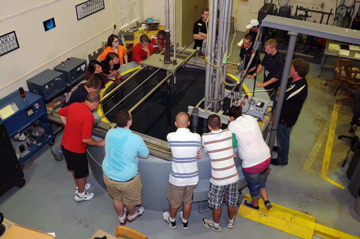 "WEST LAYFAYETTE, Ind., (July 13, 2011) Navy Junior Reserve Officers Training Corps (NJROTC) cadets tour the Purdue University Reactor (PUR-1) facilities. The cadets were attending the Science, Technology, Engineering and Mathematics (STEM) seminar which focused on nuclear, electric and wind power. (U.S. Navy photo by Dwayne Rider/Released)"